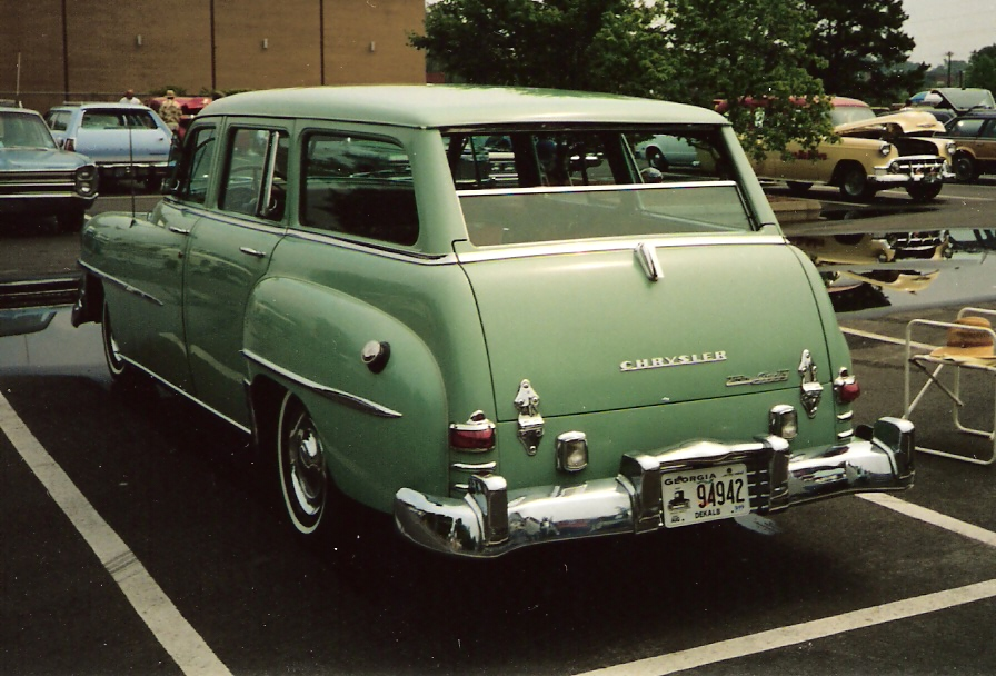 1952 Chrysler Windsor Town & Country station wagon I photographed in Charlotte, North Carolina in June 1999.